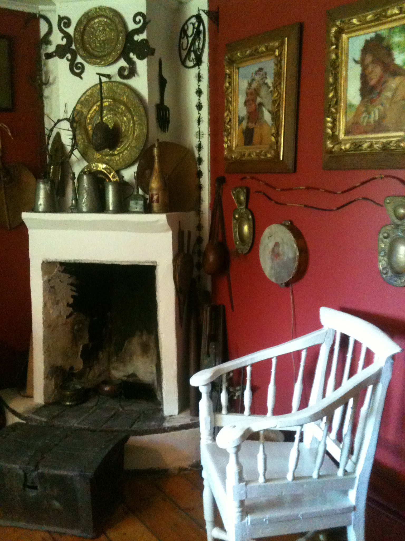 Brucebo artist´s home: The Indian Room reminding of William Blair Bruce´s Canadian background